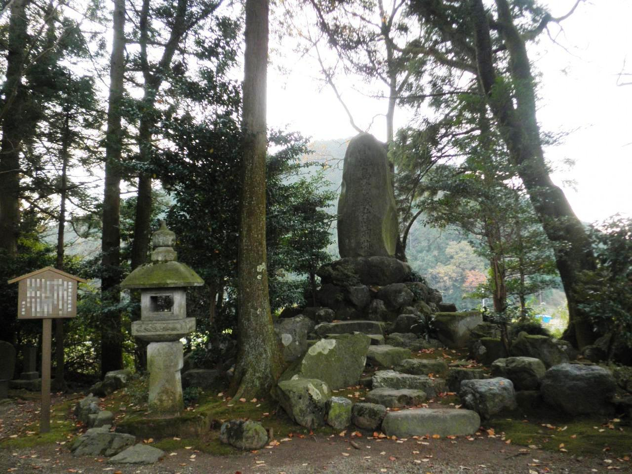 Site of Shimazu Yoshihiro's position in the Battle of Sekigahara.